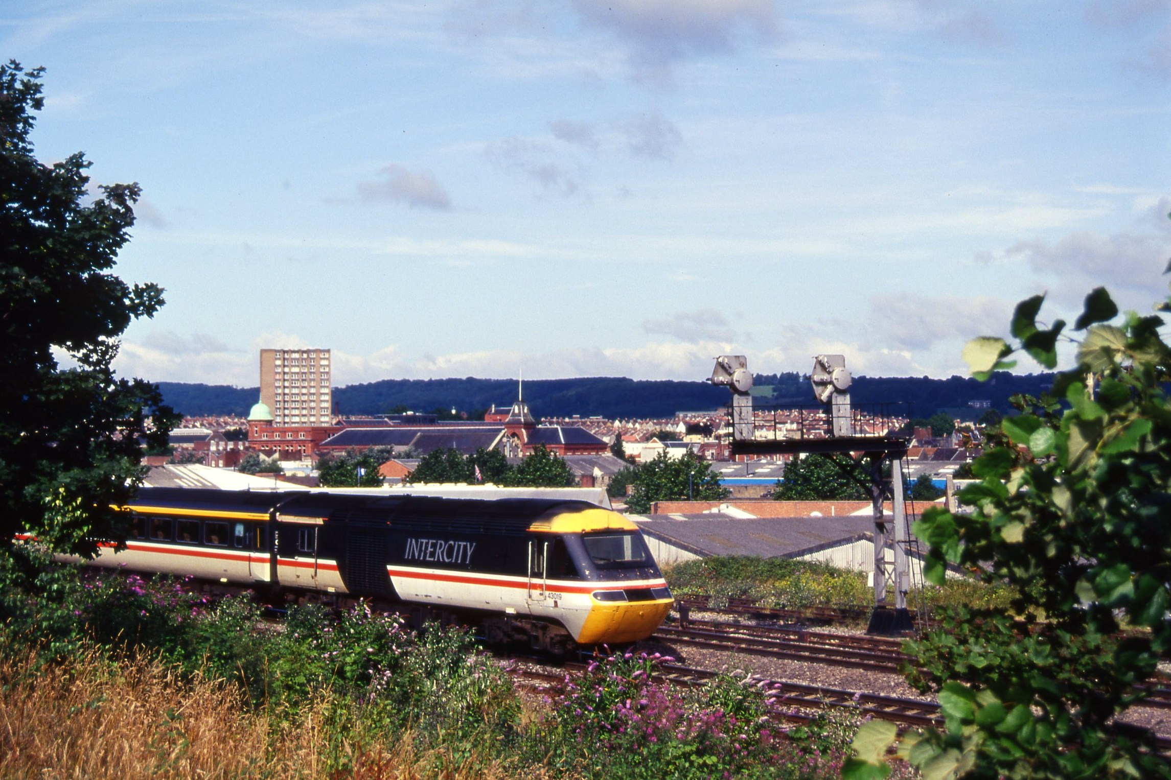 Olympus OM10 camera, scanned from 35mm slide.